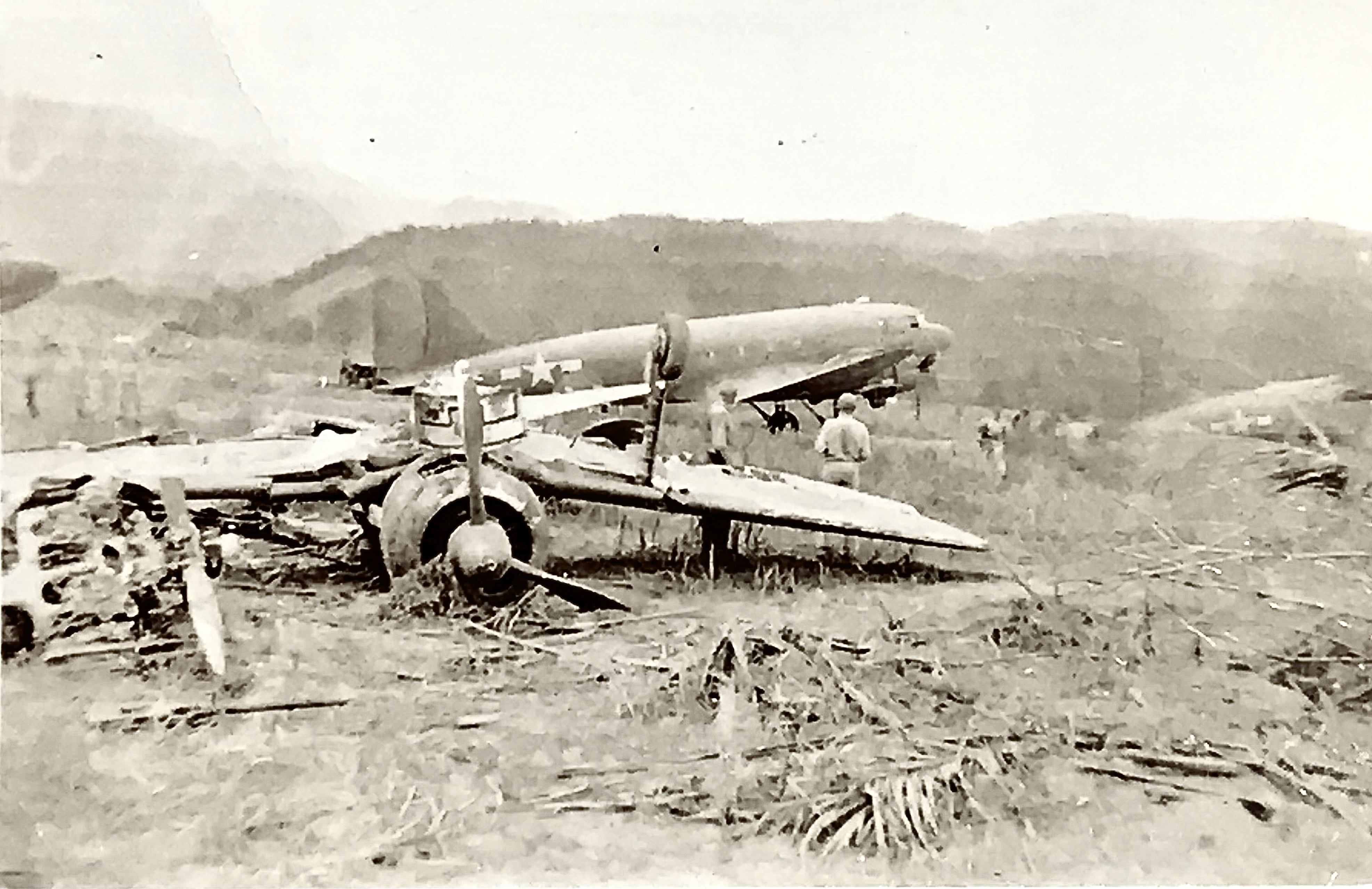 Day after the strip was taken